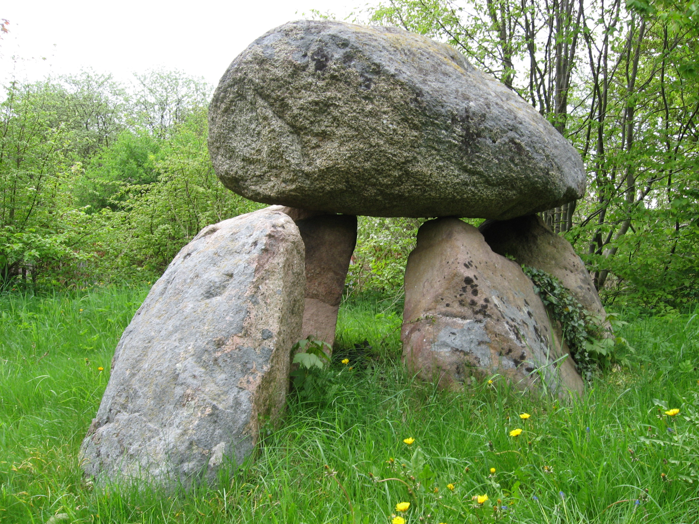 Remains of a Stone Age tomb at Årslev west of Århus, Denmark. Seen from south towards north.